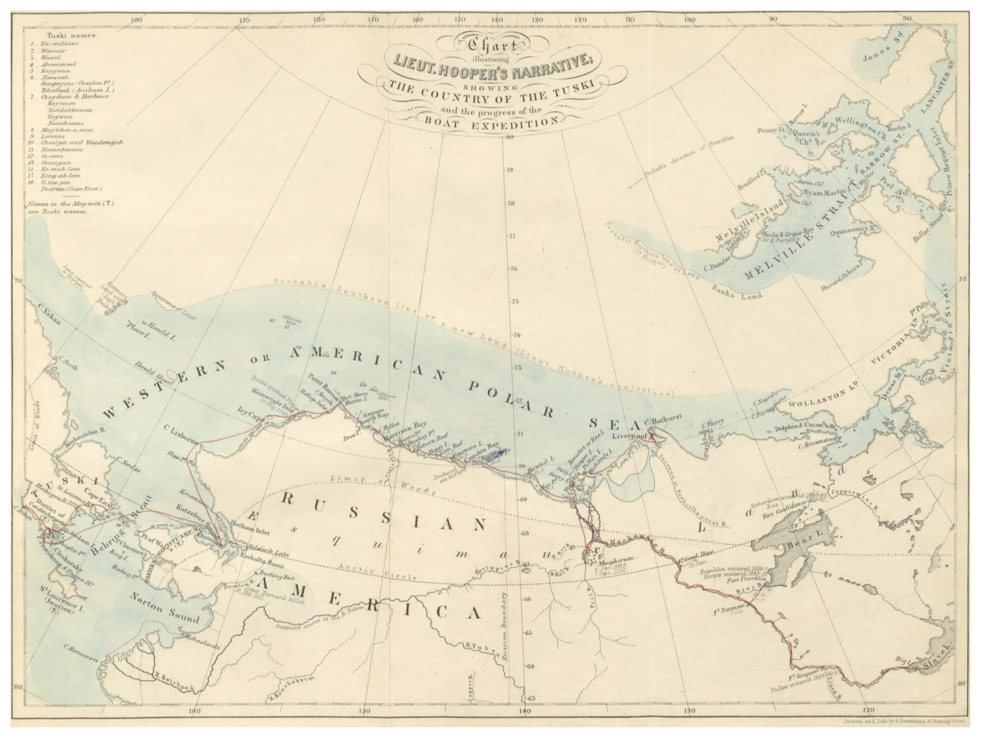 Image extracted from page 459 of Ten months among the tents of the Tuski, with incidents of an Arctic Boat Expedition in search of Sir John Franklin, as far as the Mackenzie River and Cape Bathurst... With a map and illustrations., by Lt. William Hulme Hooper (1827–1854).